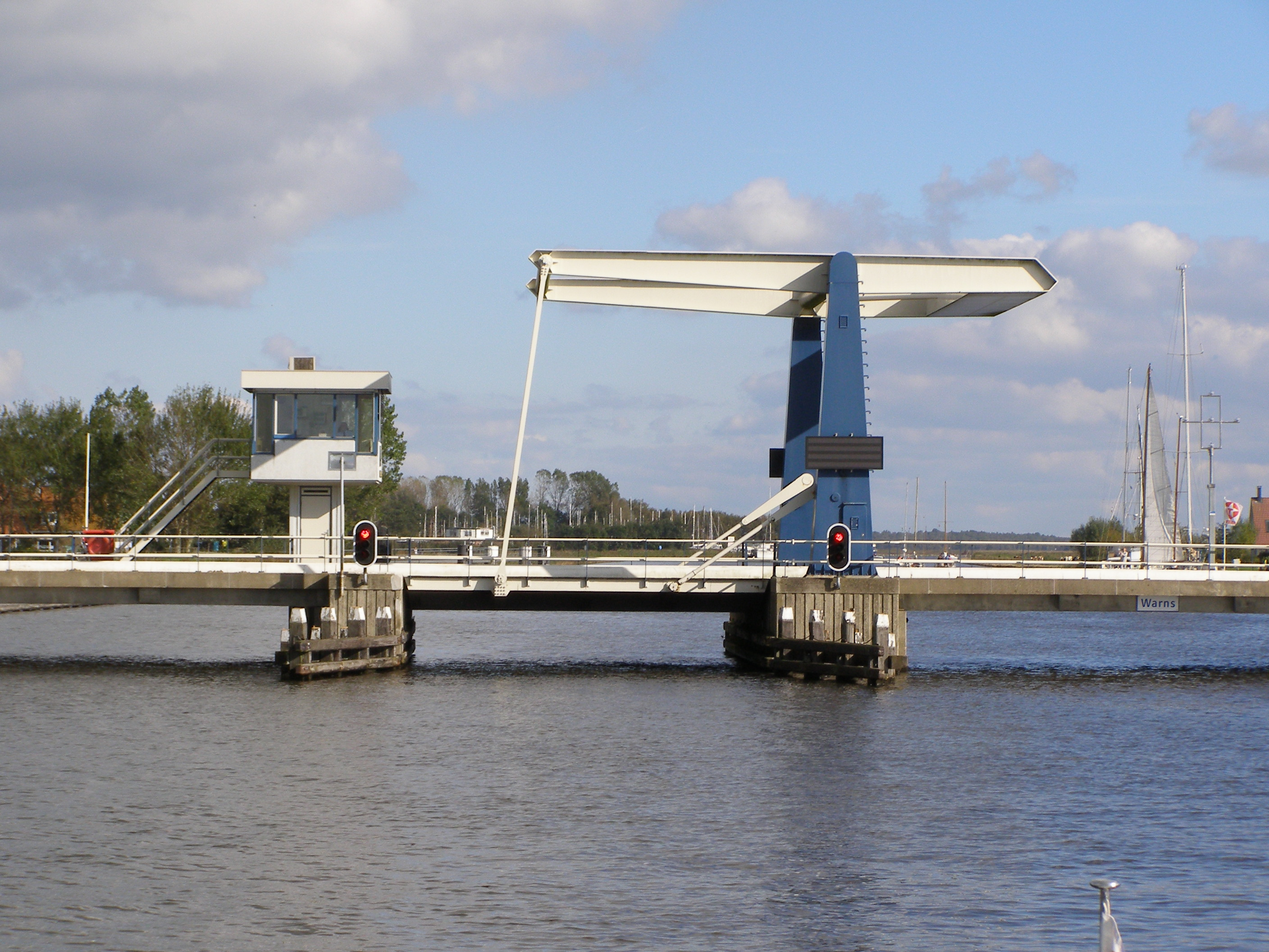 Warnsebrug over the Johan Friso Kanaal in the Netherland